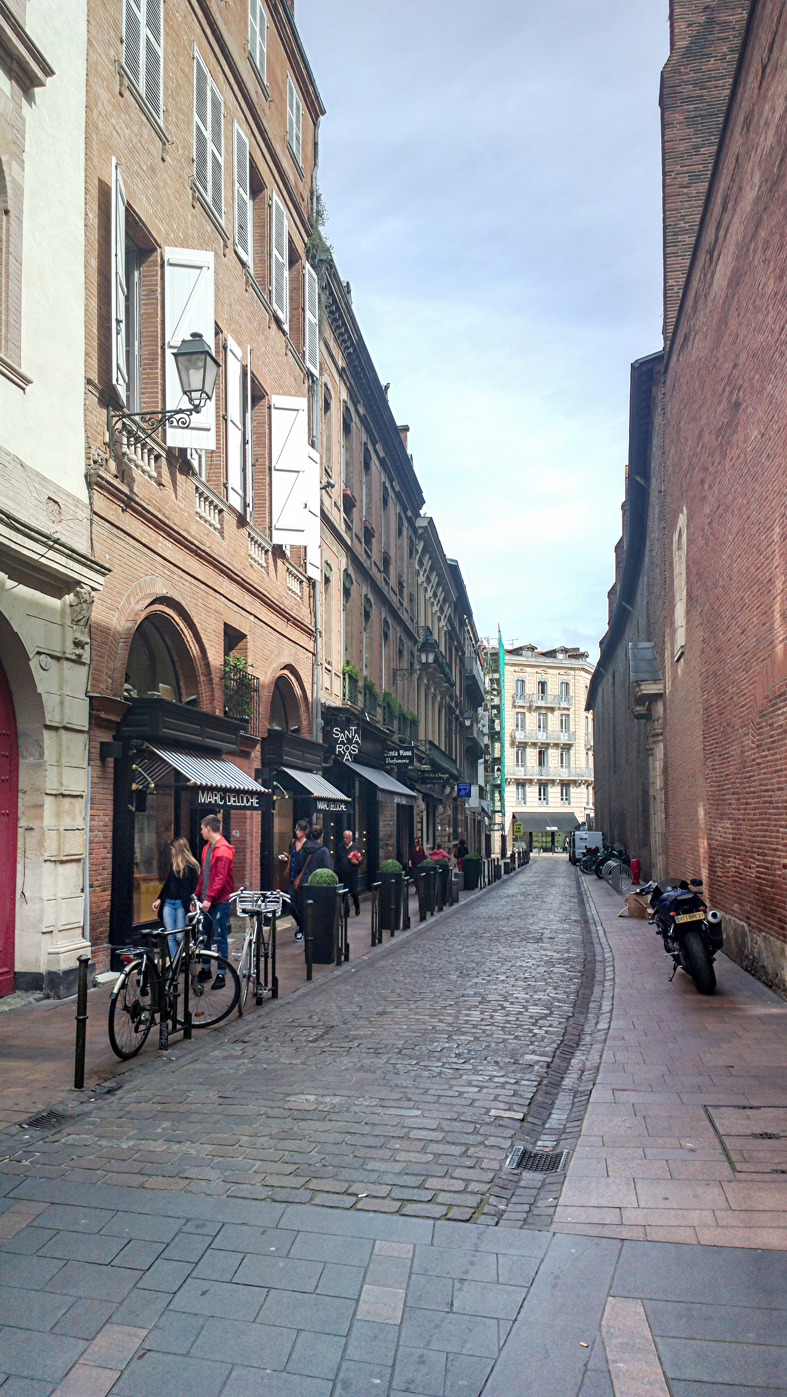 Rue d'Astorg, in Toulouse - Viewed in its entirety from the Rue d'Alsace-Lorraine.